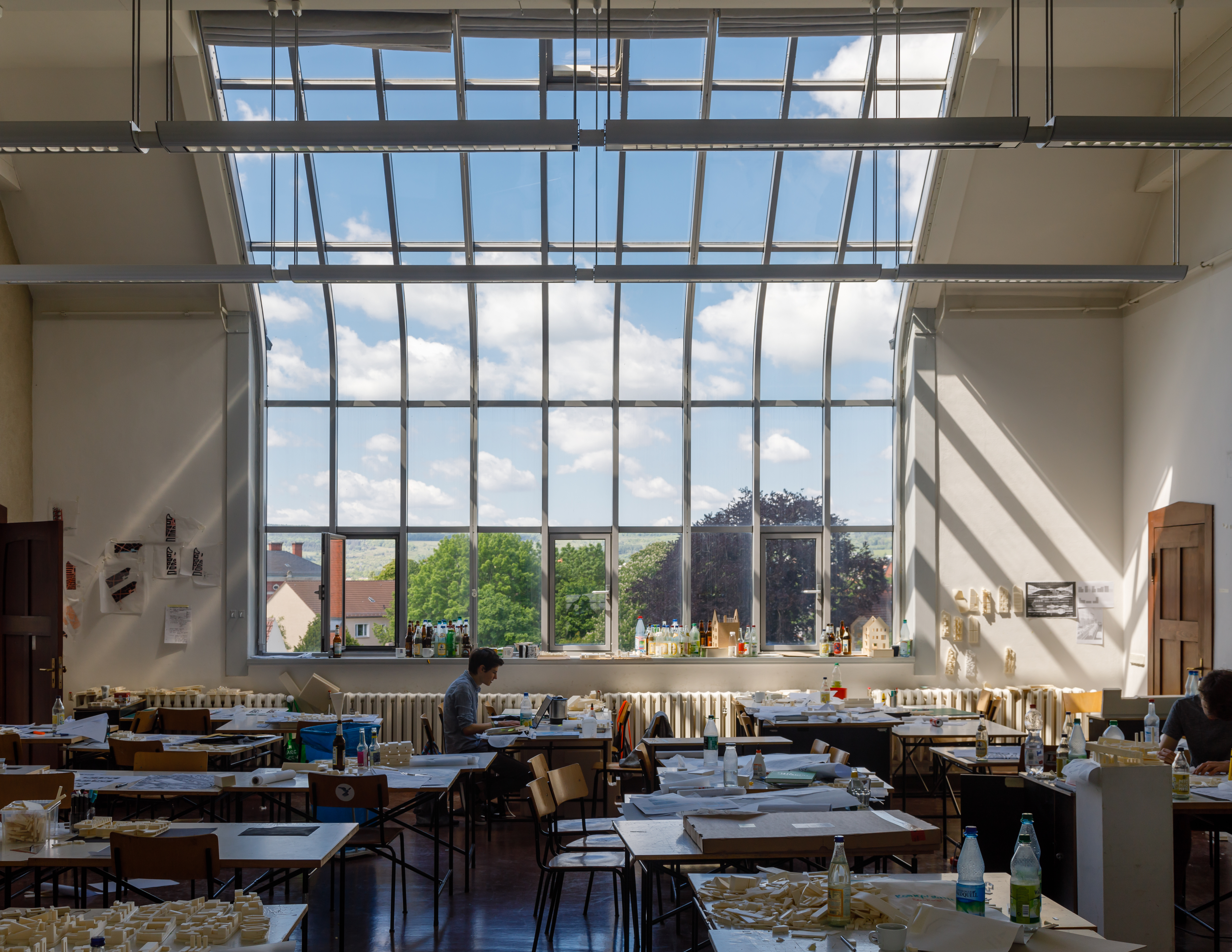 Weimar, Germany: Ceiling windows at the top floor of the main building of Bauhaus-Universität Weimar